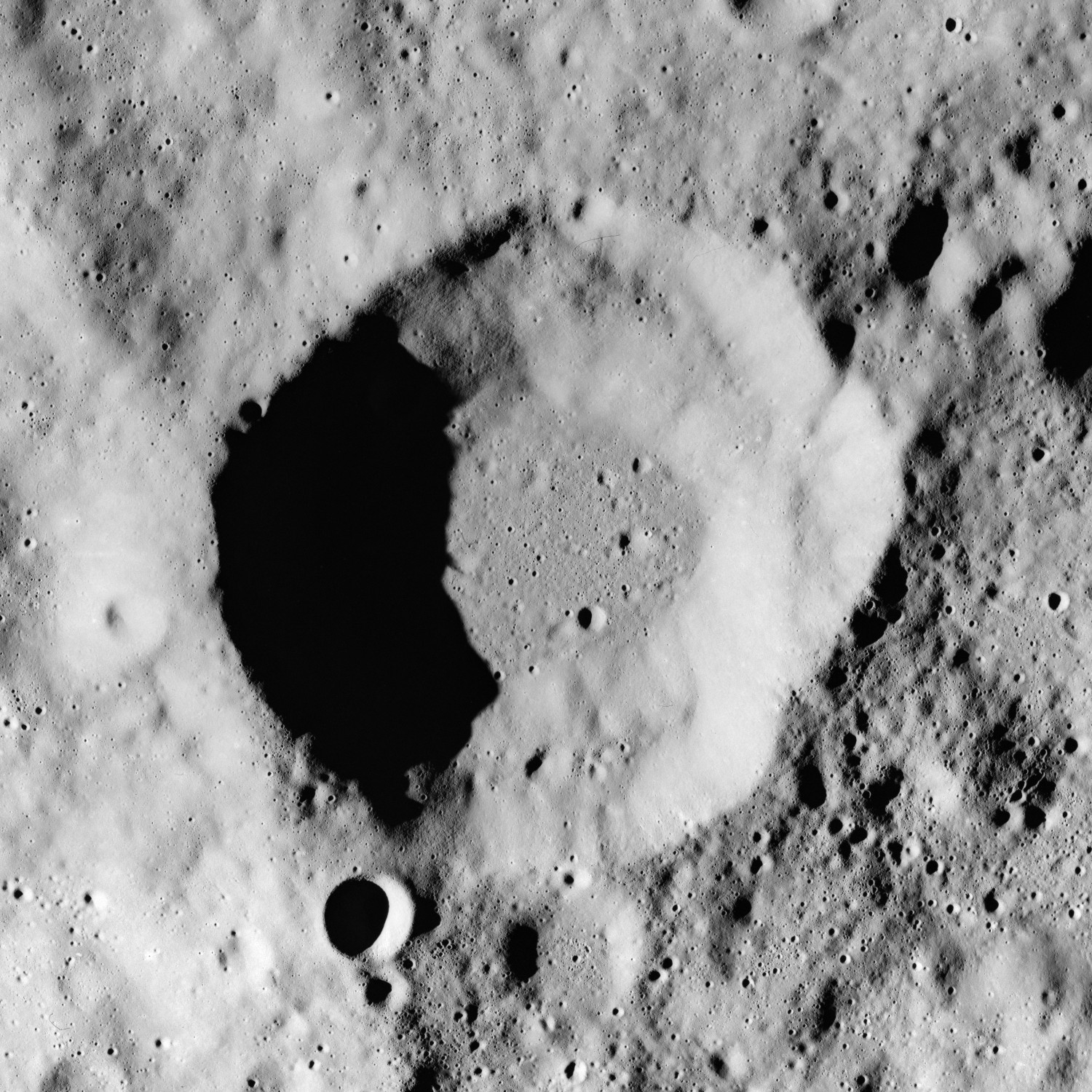 Stein crater, on the far side of the moon. From Revolution 3 of the Apollo 16 mission.